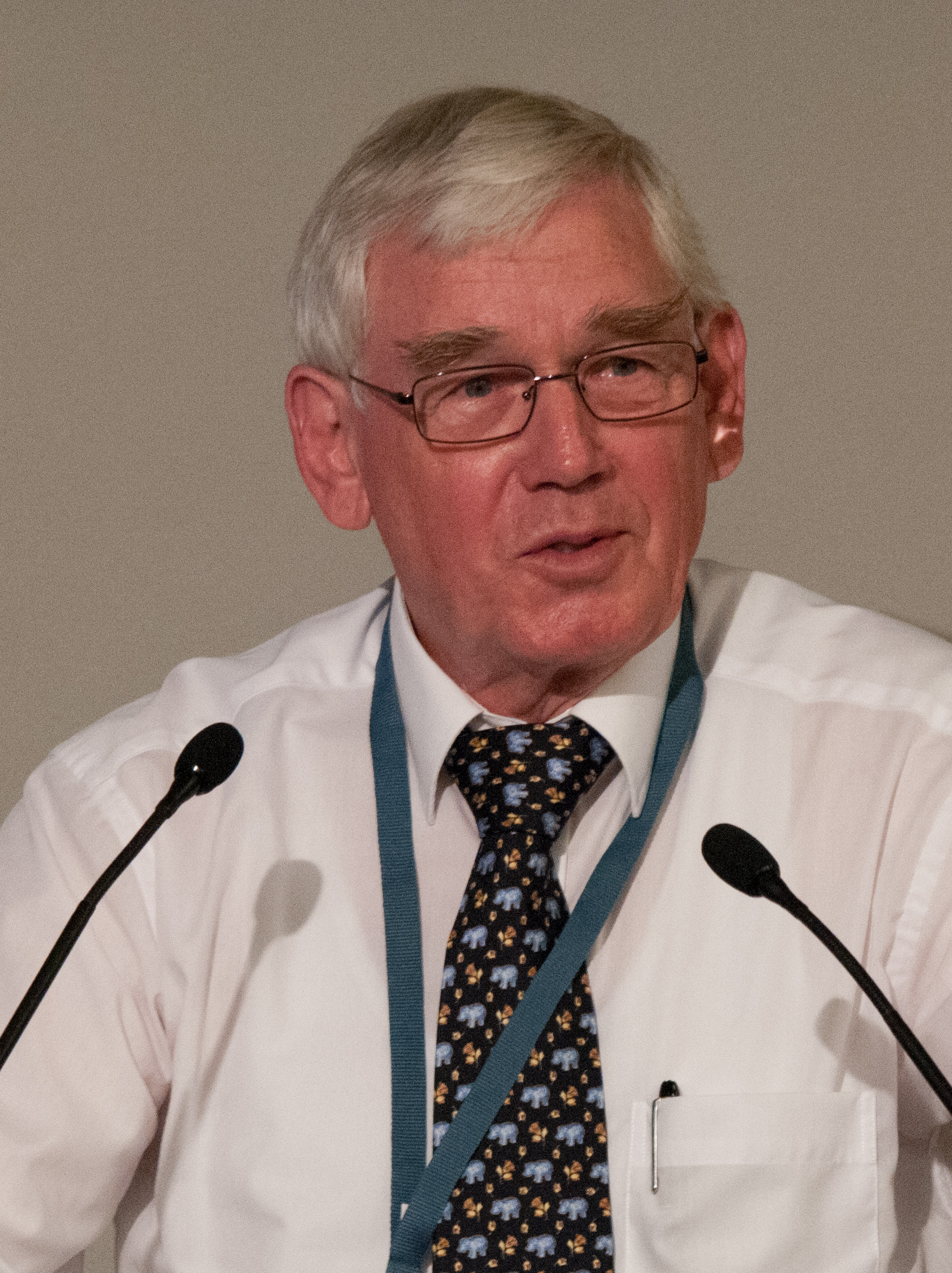 25. Baltic Sea Parliamentary Conference vom 28.-30. August 2016 in Riga. Second Session: Poul Nielson, former EU Commissioner and Danish cabinet minister, Author of the announced strategic review of the Nordic labour market